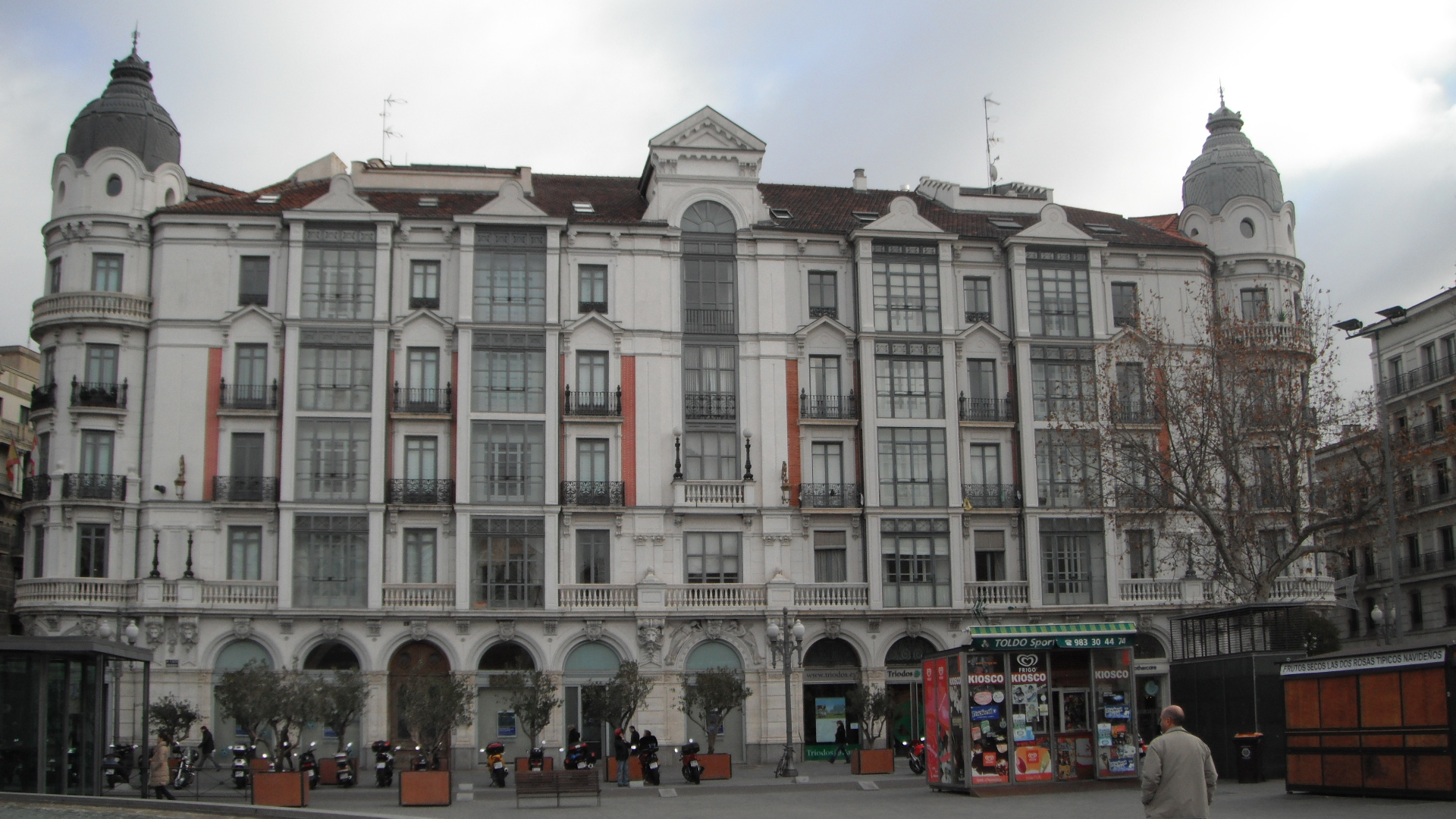 Mantilla's house in Valladolid